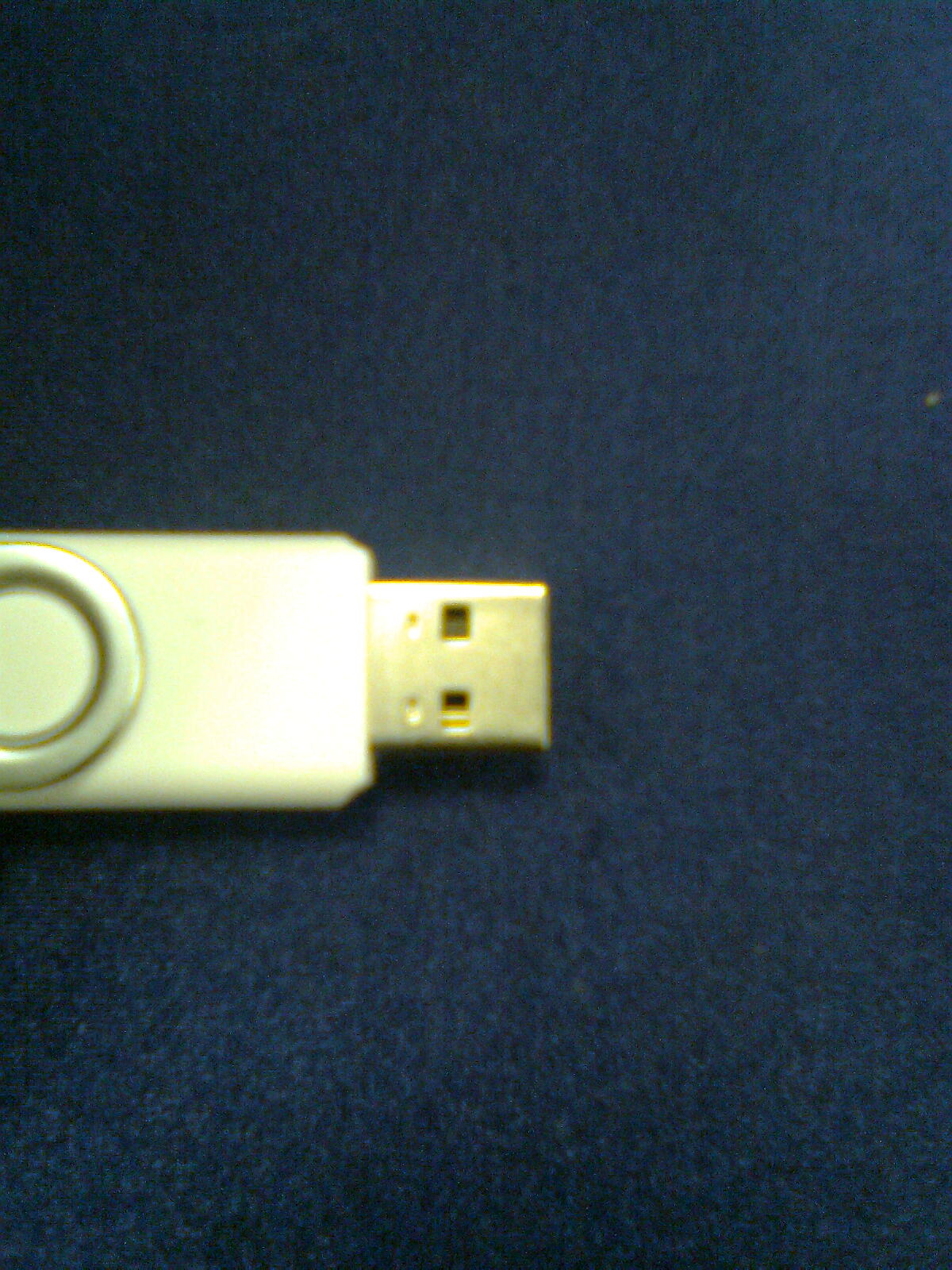 USB Plugs